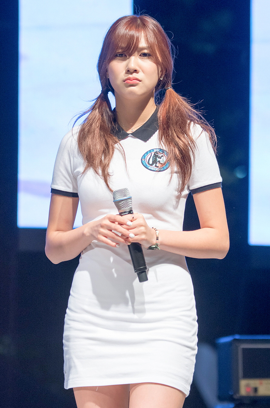 Oh Hayoung at Soongsil University festival, 6 October 2014